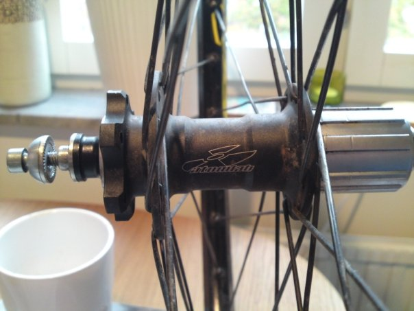 A rear hub made by Atomlab mounted on a mountain bike wheel.